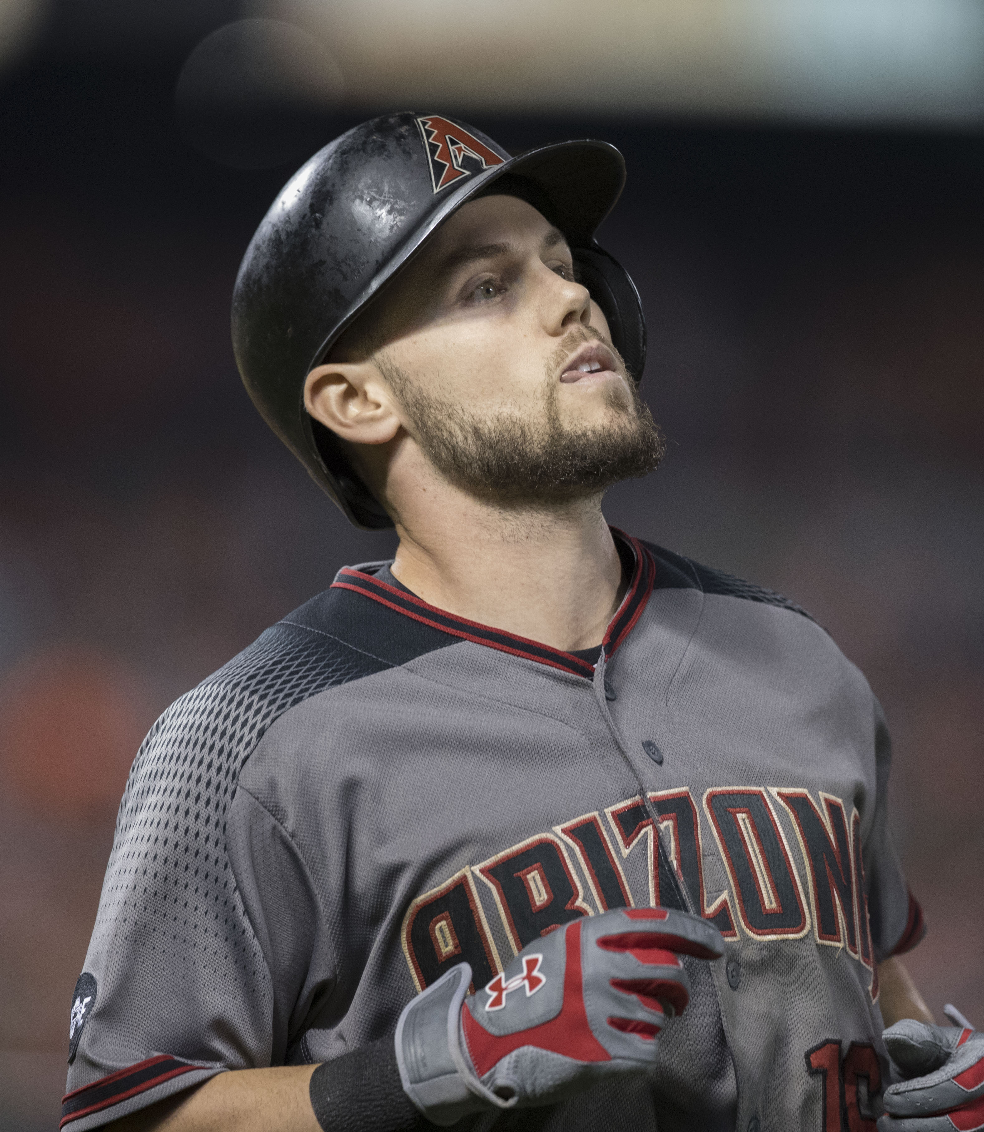 Diamondbacks at Orioles 9/24/16